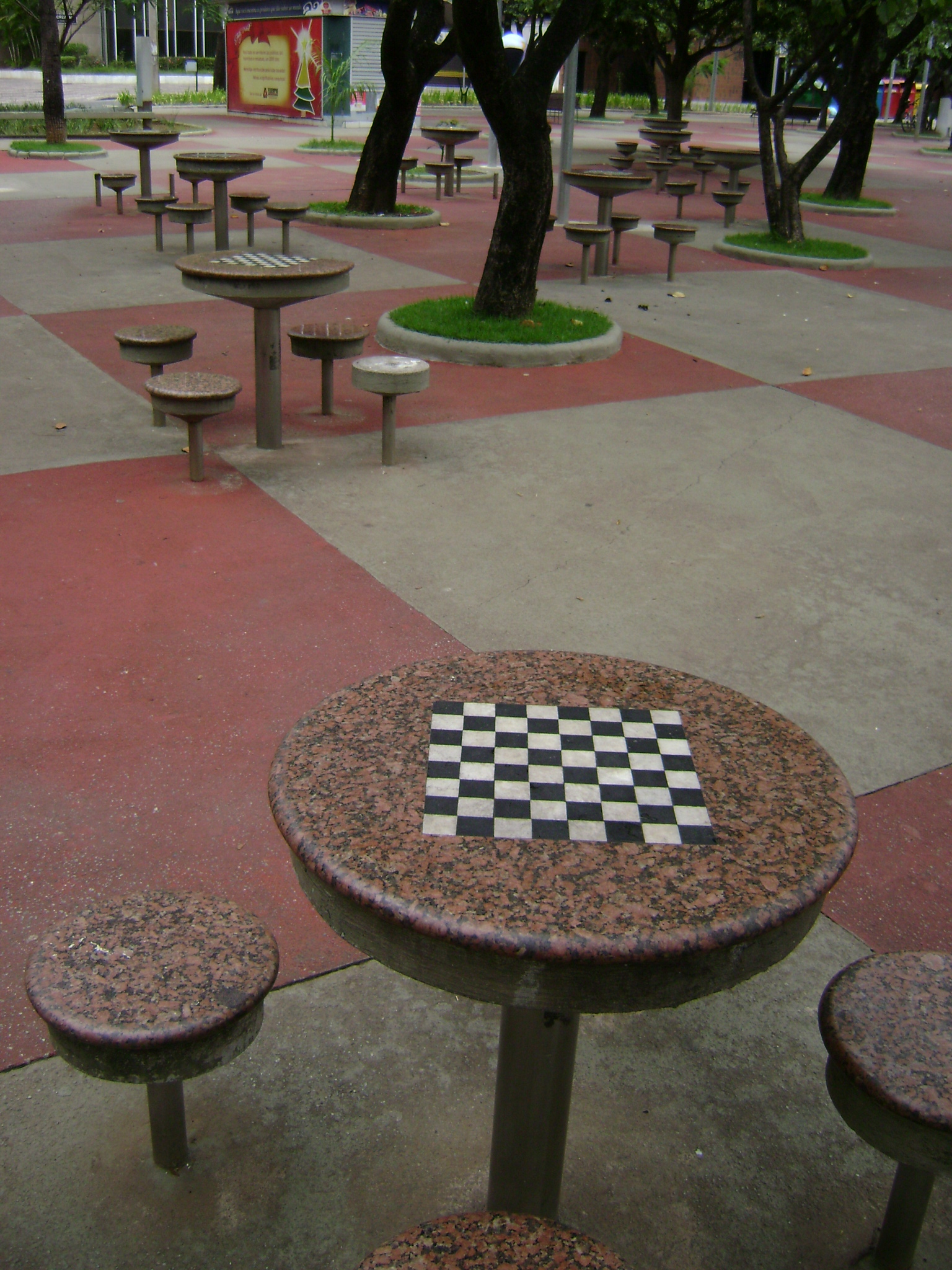 Mesas de xadrez, na Praça da Assembleia, em Belo Horizonte.